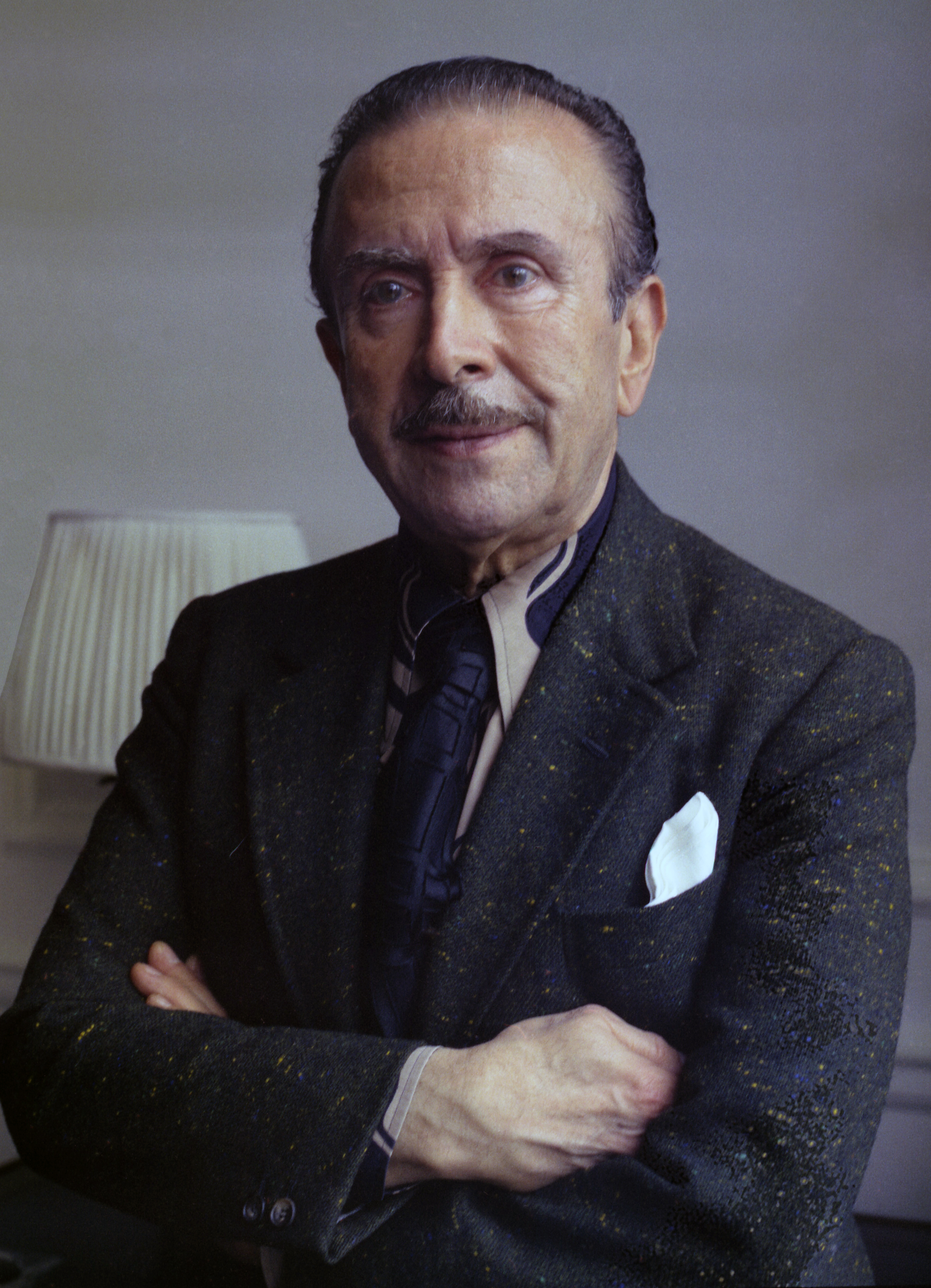 Claudio Arrau taken in his suite at the Savoy Hotel London